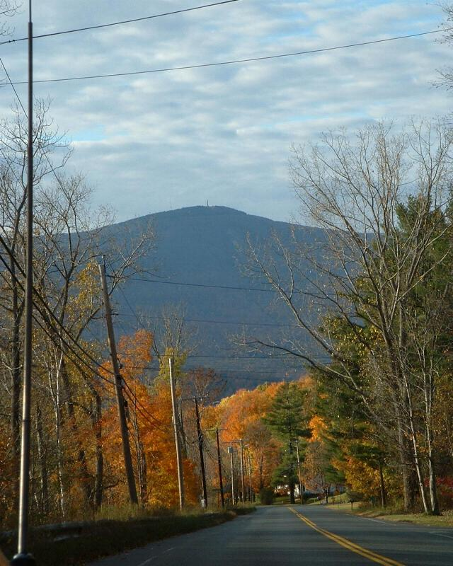 A view of the summit of Mount Greylock from Route 116 in Cheshire. Route 116, Cheshire, MA